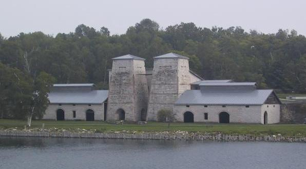 Furnace complex at Fayette Historic State Park, near Fayette, Michigan; original at